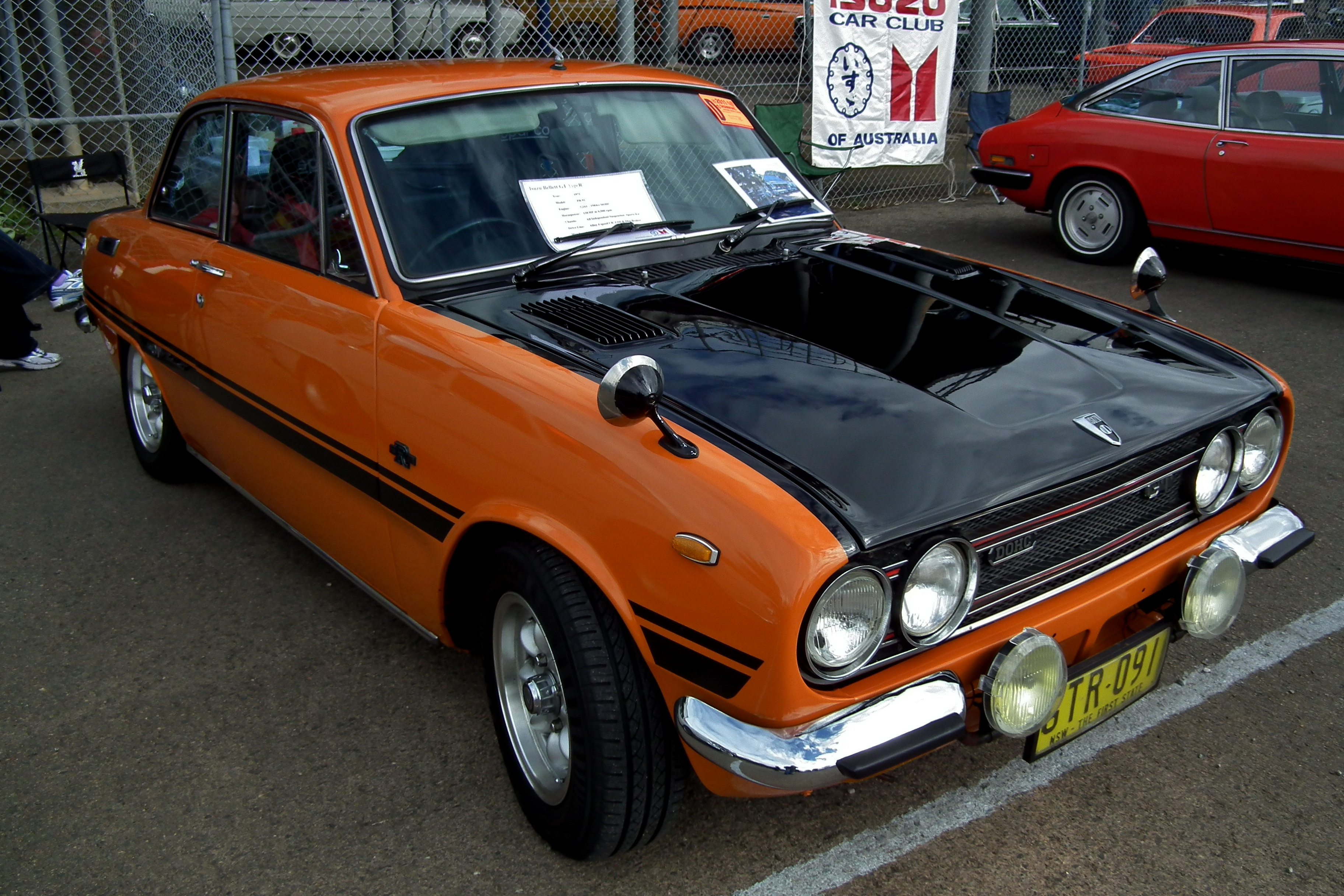 1970 Isuzu Bellett 1600 GT-R coupe. Taken at Shannon's Eastern Creek Classic 2011, held at Eastern Creek Raceway Sydney.